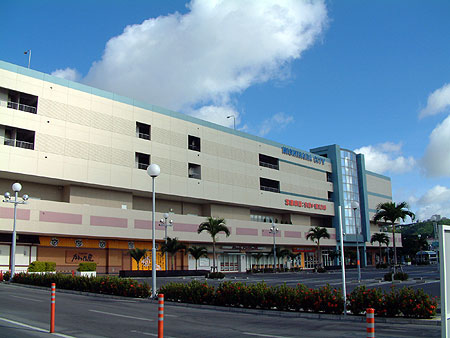 SAN-A Nishihara City